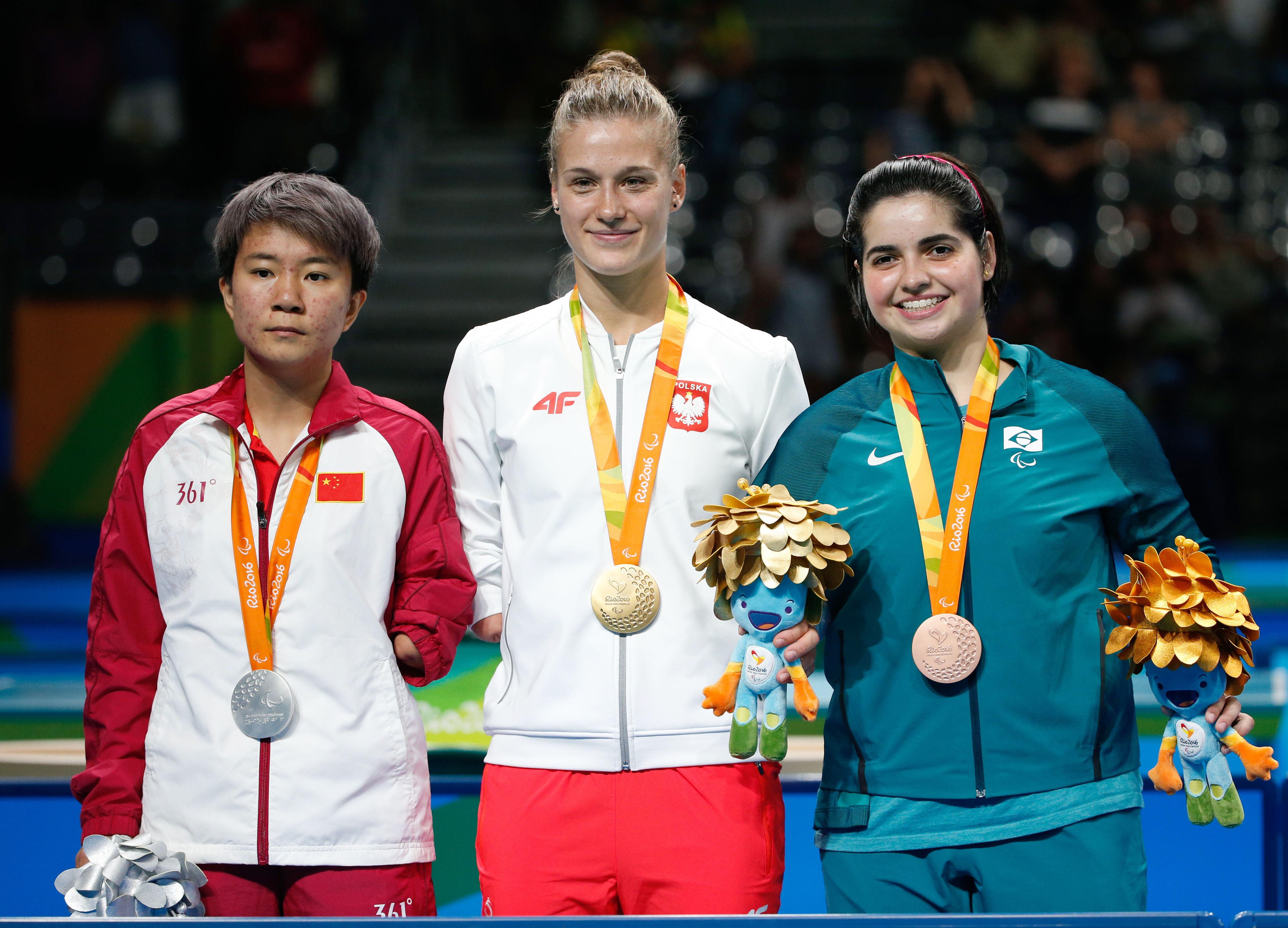 Rio de Janeiro - Podium for table tennis, CL10, at the Paralymics in Rio 2016: Qian Yang, of China (silver), Natalia Partyka of Poland (gold) and bronze for Bruna Alexandre of Brazil (pix from Fernando Frazão/Agência Brasil)